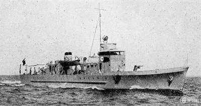 Patrol ship of Manchukuo Sea Police Service Hai Lung (Kairyu).